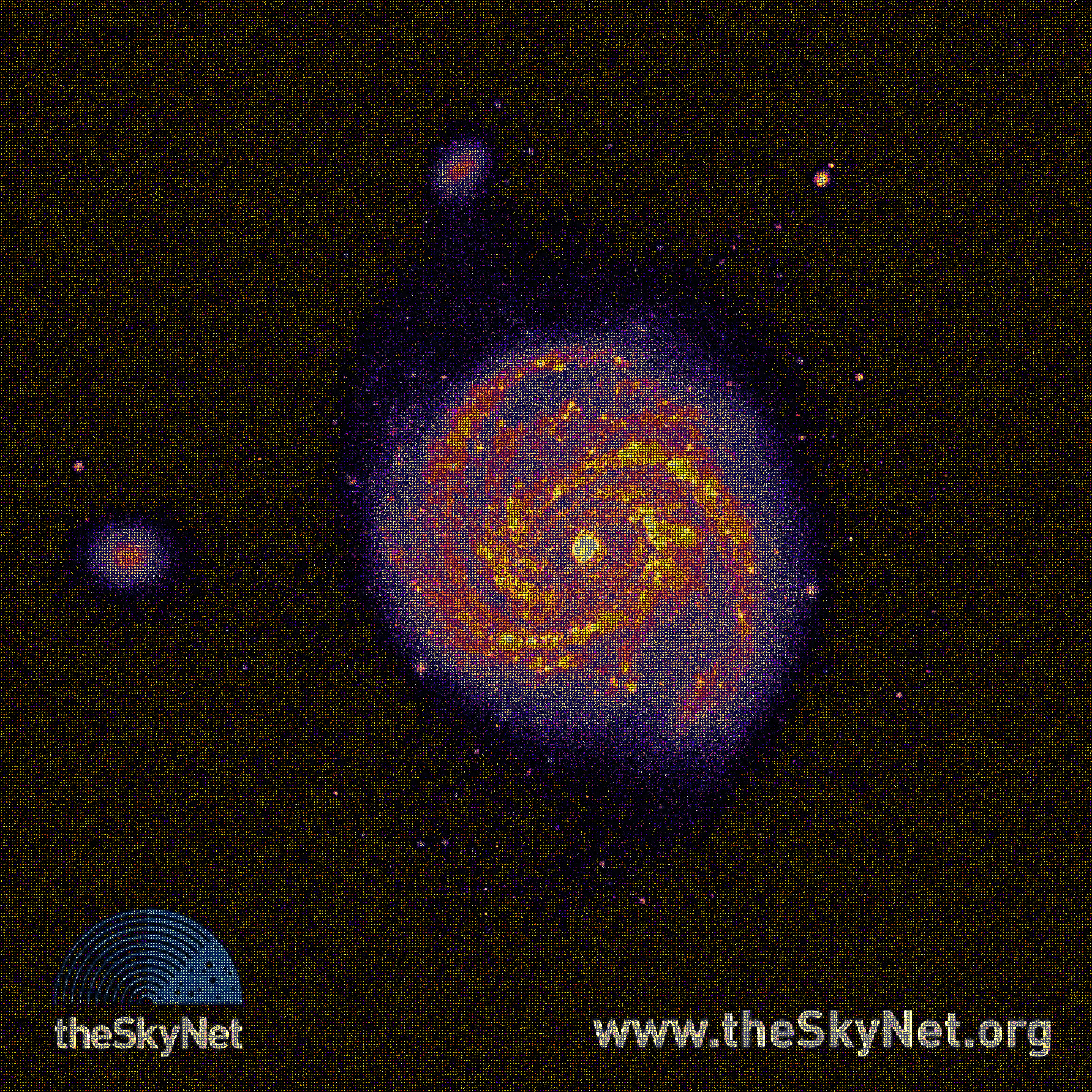 A mosaic of results from theSkyNet, a distributed computer made up of volunteer computers that anyone can join. The main image shows how fast stars are forming in ‘nearby’ galaxy Messier 100 (M100), white patches are hotbeds of new stars, purple areas are where fewer young stars are forming. Each sub image is results from the other 45,000+ galaxies theSkyNet volunteers have processed. The original data that theSkyNet volunteers processed to make these images is from the Pan-STARRS Optical Galaxy Survey, which is conducted by Pan-STARRS1, a powerful visible light telescope in Hawaii. For more information on how the Mosaic was made visit: The full gigapixel image is available to explore at